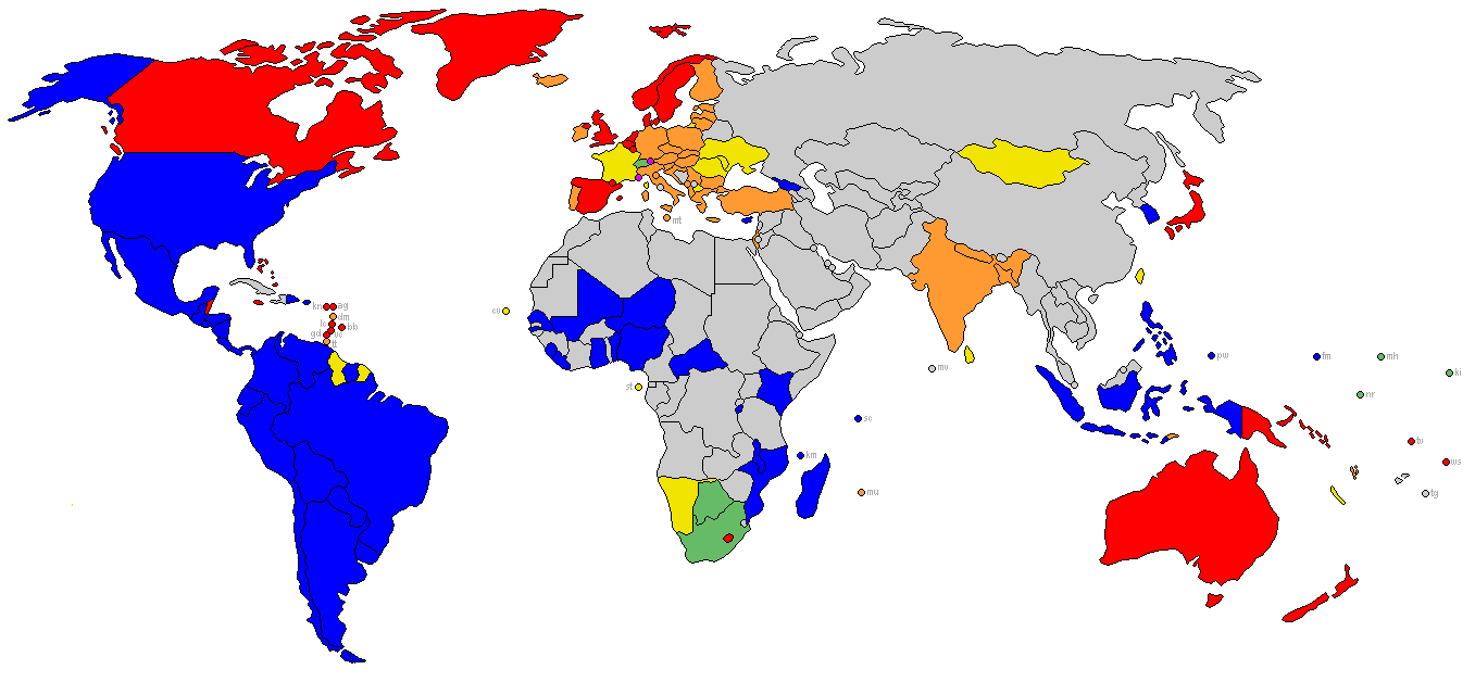 World's states coloured by form of government as of 2006, including only electoral democracies as judged by Freedom House orange - parliamentary republics green - presidential republics, executive presidency linked to a parliament yellow - presidential republics, semi-presidential system blue - presidential republics, full presidential system red - parliamentary constitutional monarchies in which the monarch does not personally exercise power magenta - constitutional monarchies in which the monarch personally exercises power, often (but not always) alongside a weak parliament purple - absolute monarchies brown - republics where the dominant role of a single party is enshrined in the constitution. beige - states where constitutional provisions for government have been suspended